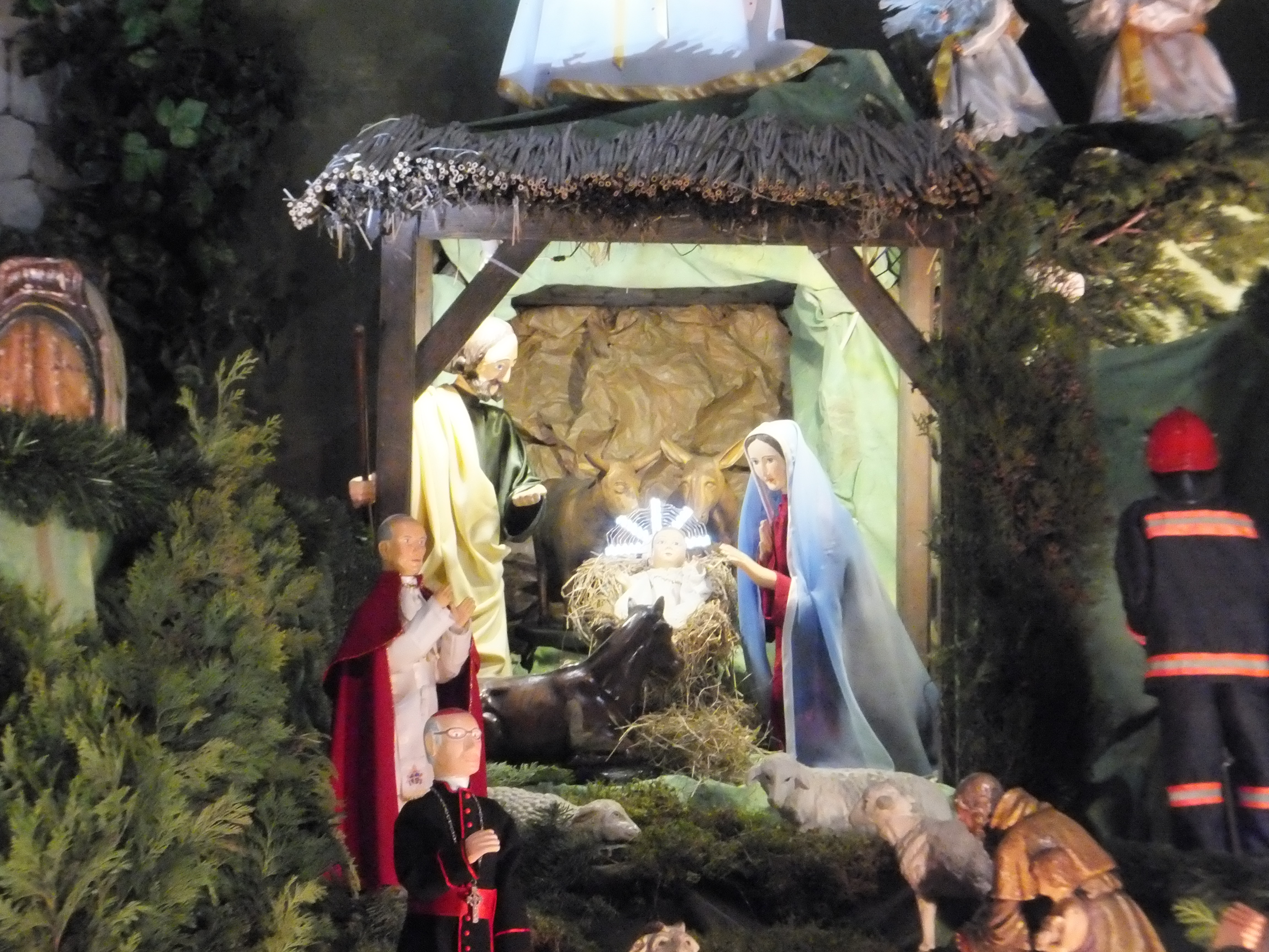 Moving crib in Saint Bartholomew church in Bieruń (Poland). Moving crib is built every year since 1955. It consists of more than 100 figures (most of the figures moving).